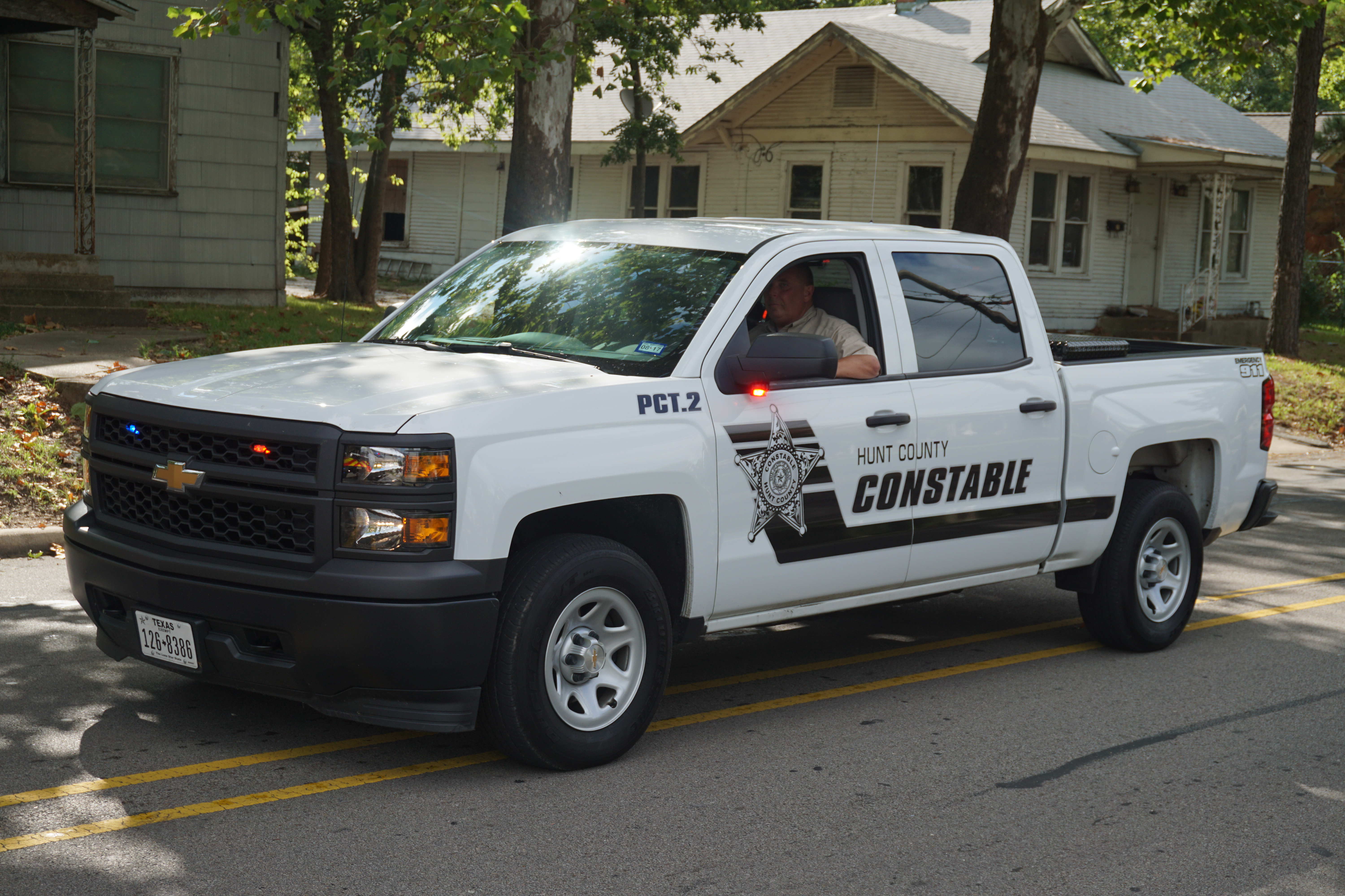 A Hunt County Constable Chevrolet Silverado in the parade at the 31st Annual Bois d'Arc Bash in Commerce, Texas (United States).